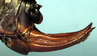 Bradyporus (Callimenus) multituberculatus (Fischer von Waldheim, 1833), female ovipositor (Elbruz Mts, N of Teheran).